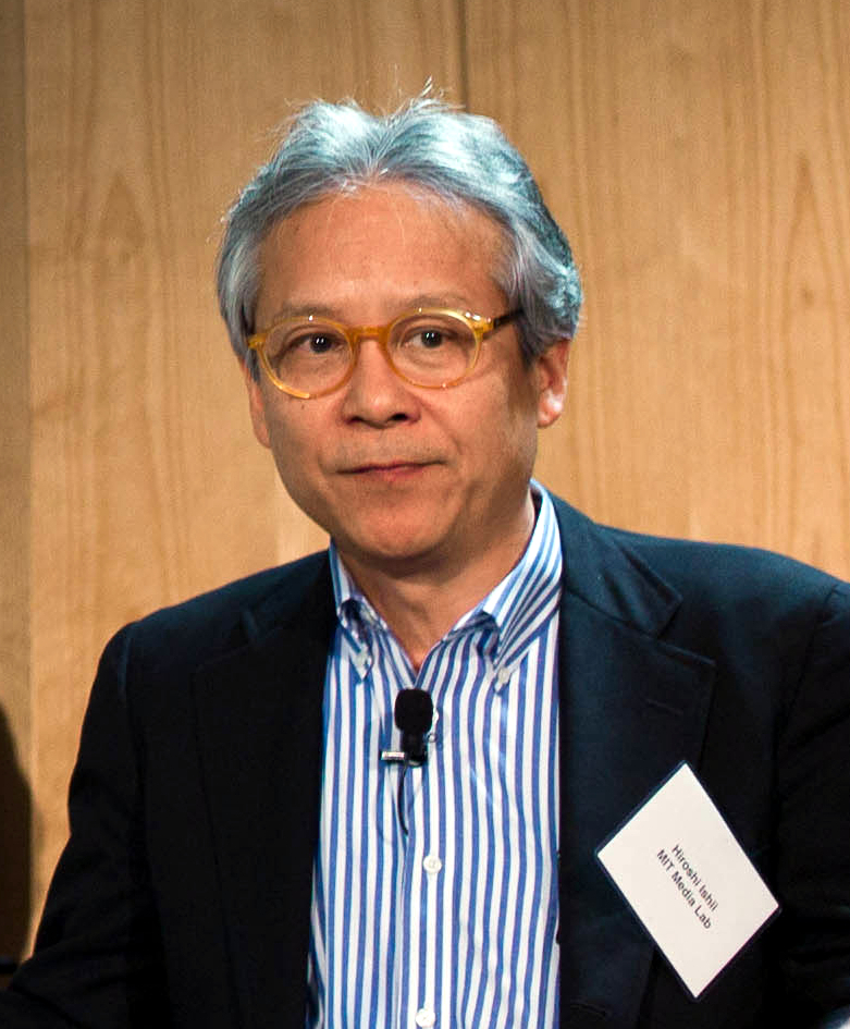 Hiroshi Ishii, Associate Director of the Media Lab, the Massachusetts Institute of Technology, spoke in Boston City, Massachusetts Commonwealth on April 6, 2012.